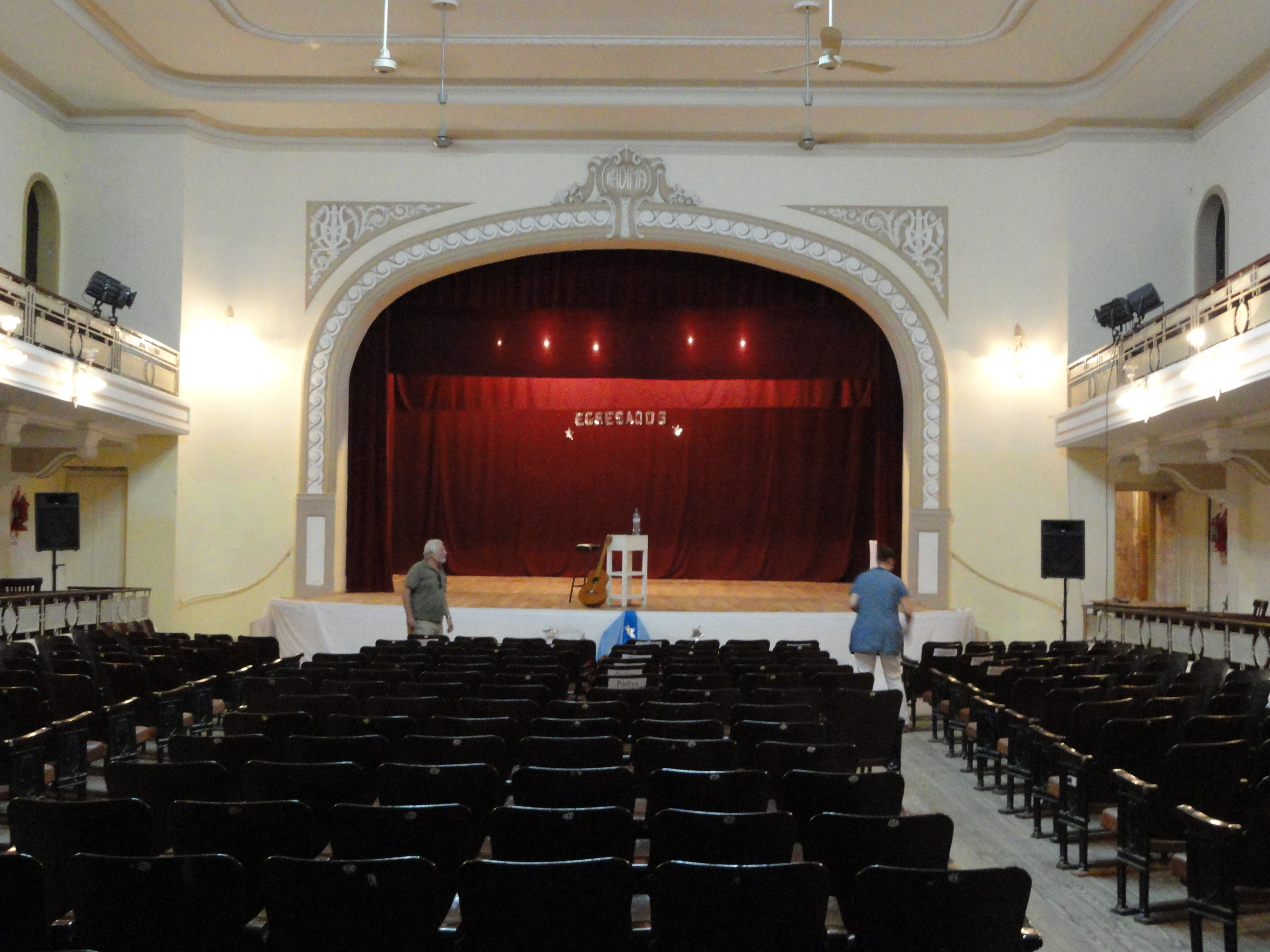 Kadima theater: Jewish theater in Moisés Ville (Argentina)